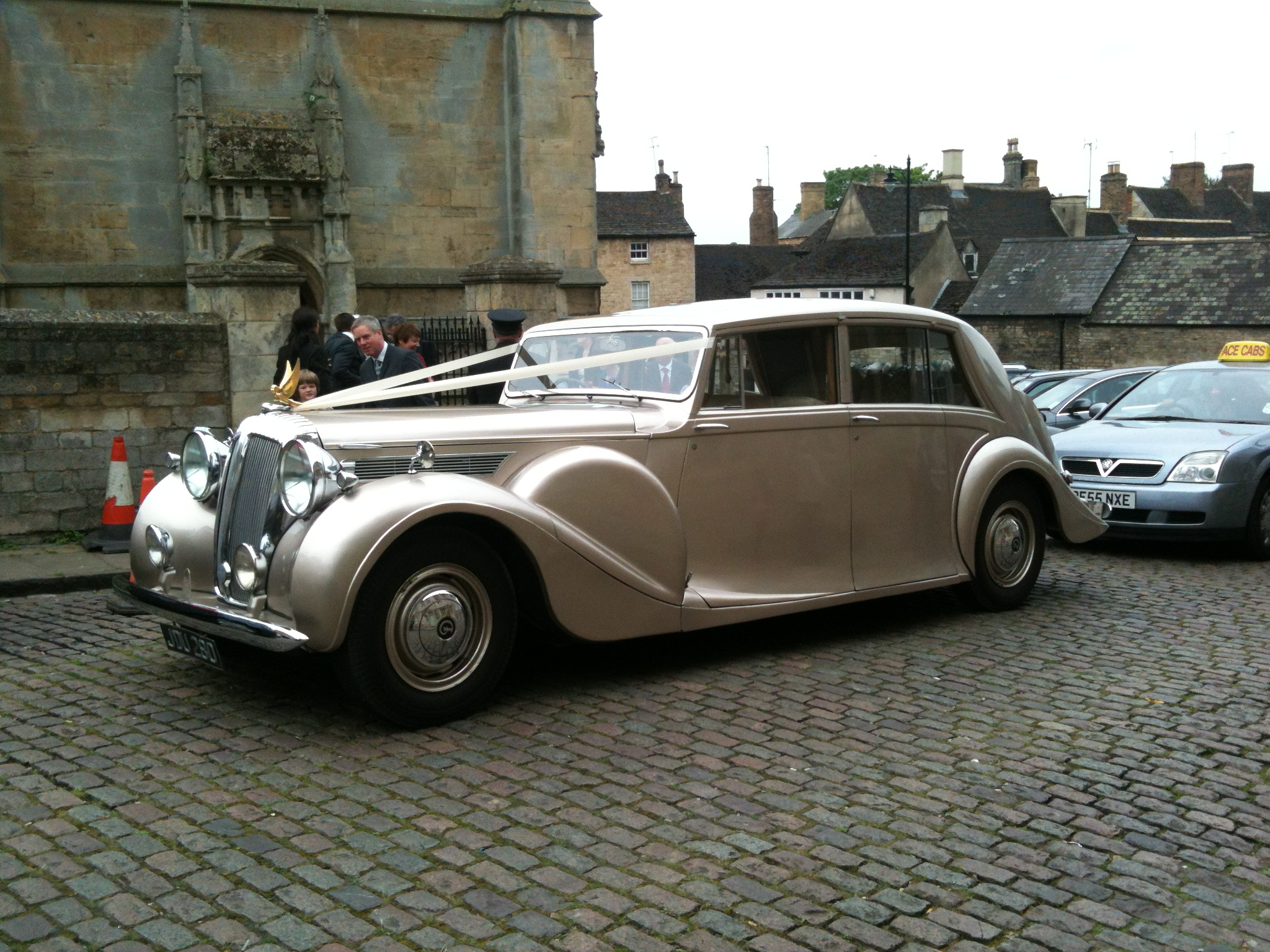 Wedding car at All Saints - nothing like gold at a wedding! Daimler Straight-Eight 1946 touring limousine by Hooper